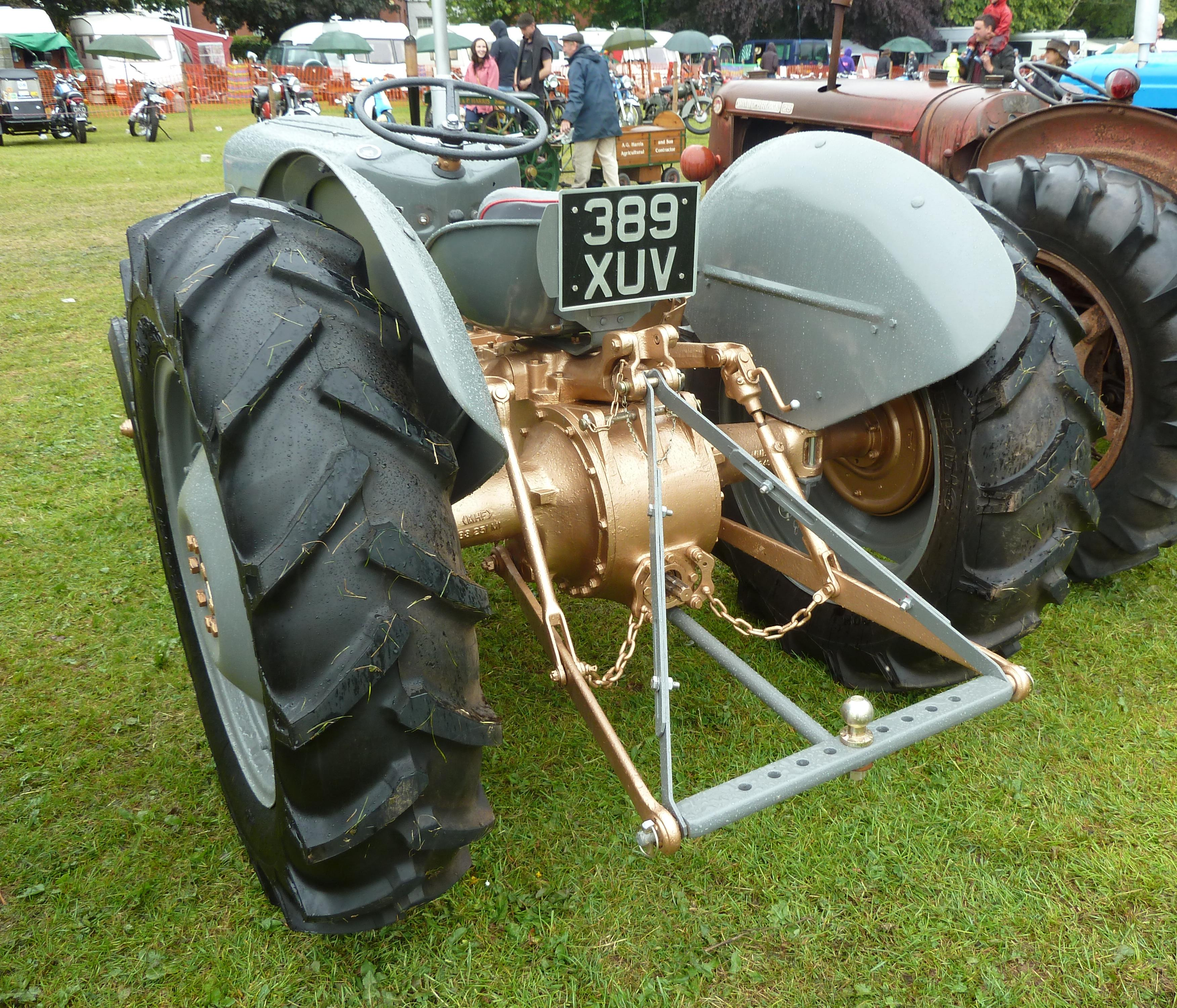 Three-point hitch on a Ferguson TEF diesel tractor The tractor and linkage are painted gold. The grey bars are a separate implement (a towing ball hitch) attached to the linkage. Abergavenny steam rally, 2011.